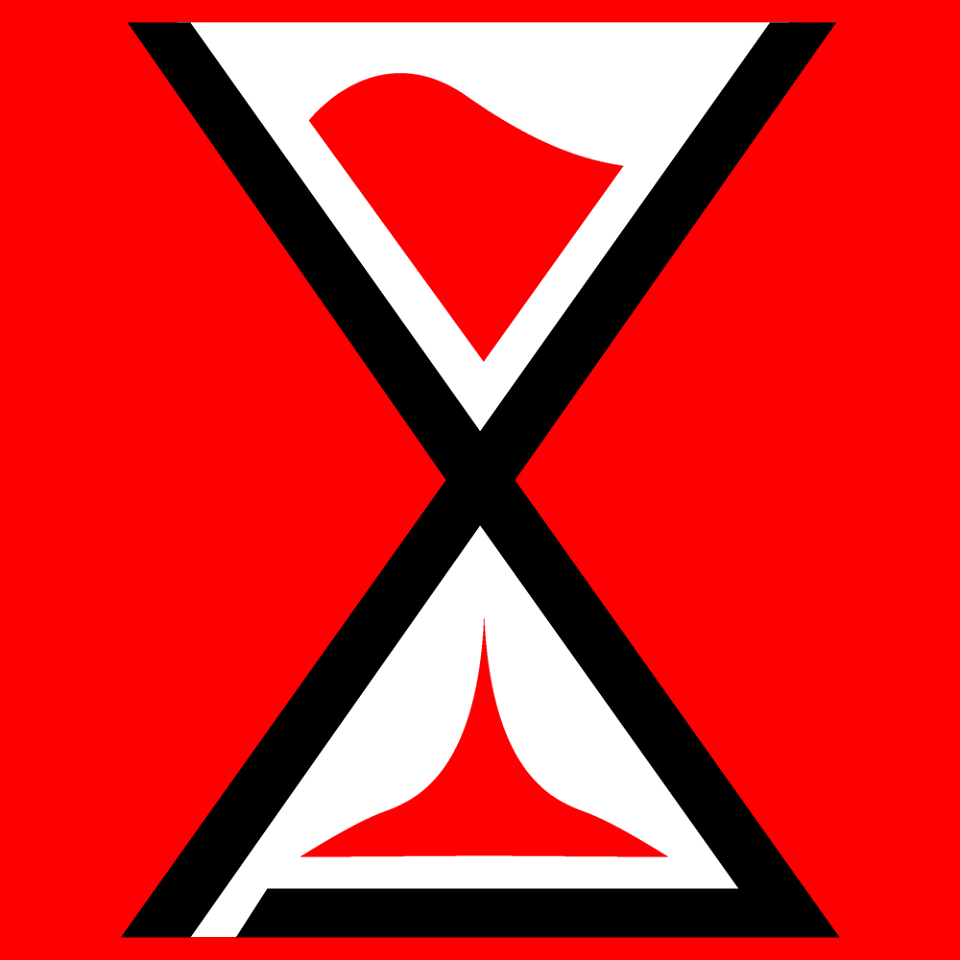 This is the logo of historical magazine Ex Tempore.